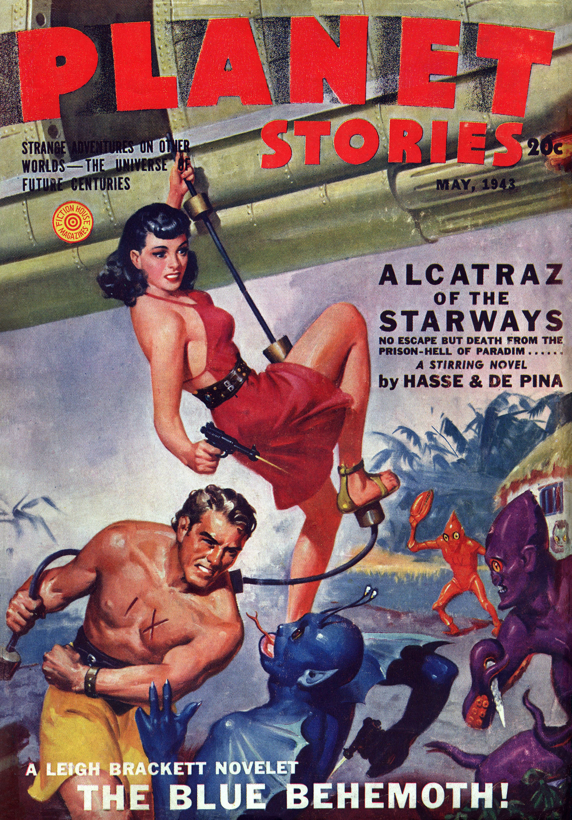 Cover of Planet Stories, May 1943